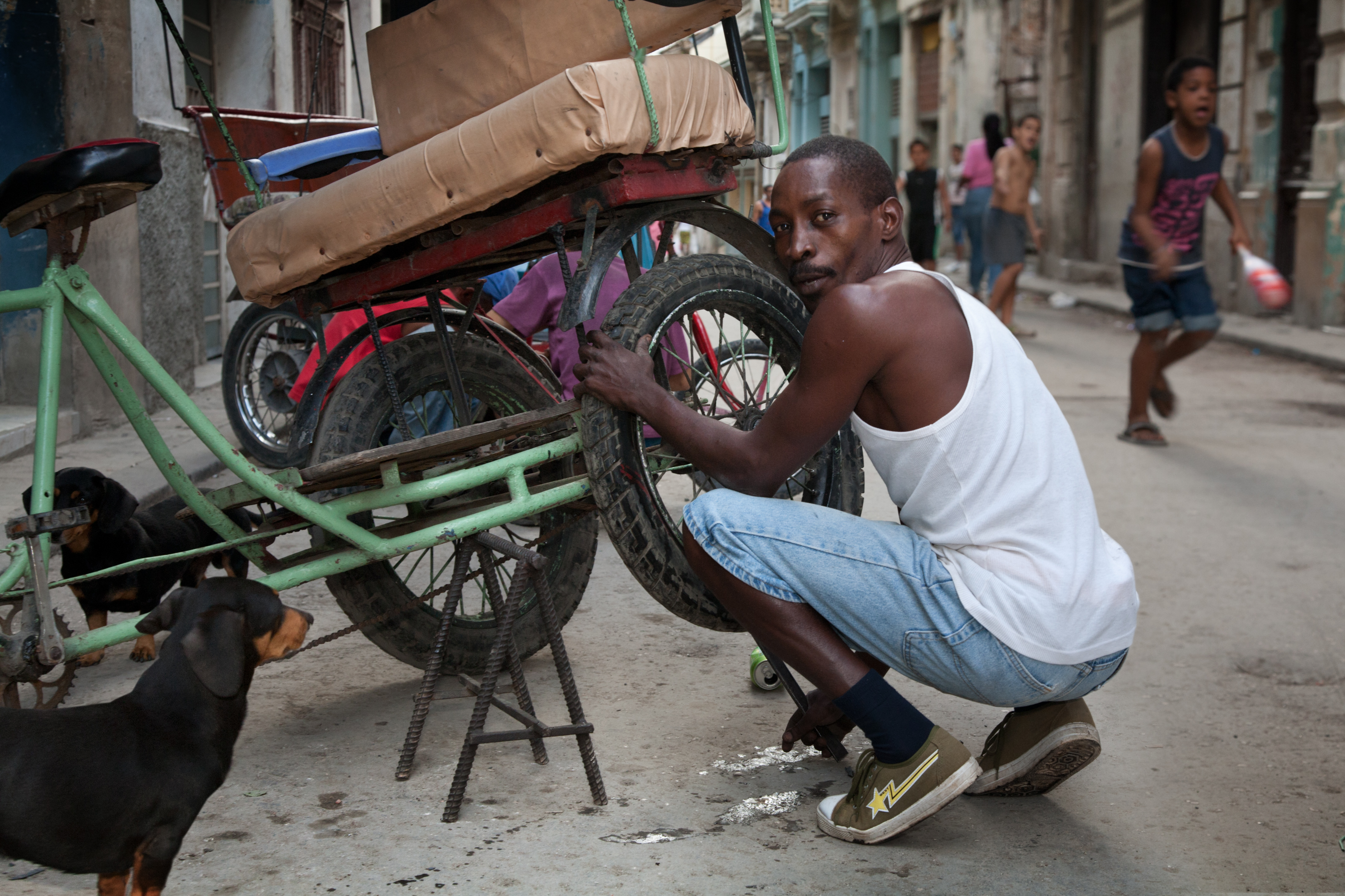 A man fixing the tire of a "Bicitaxi". Havana (La Habana), Cuba